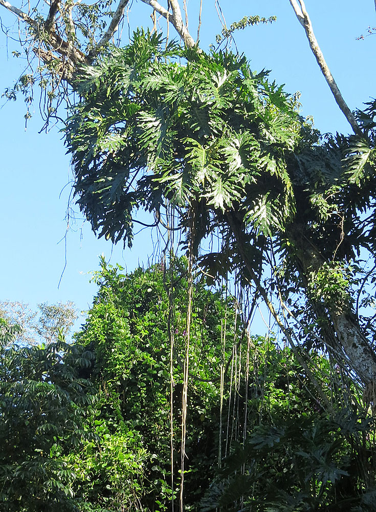 A epiphytic Guembe or Lacey Leaf Philodendron displays its air roots near the town of Iguazu, northeastern Argentina.